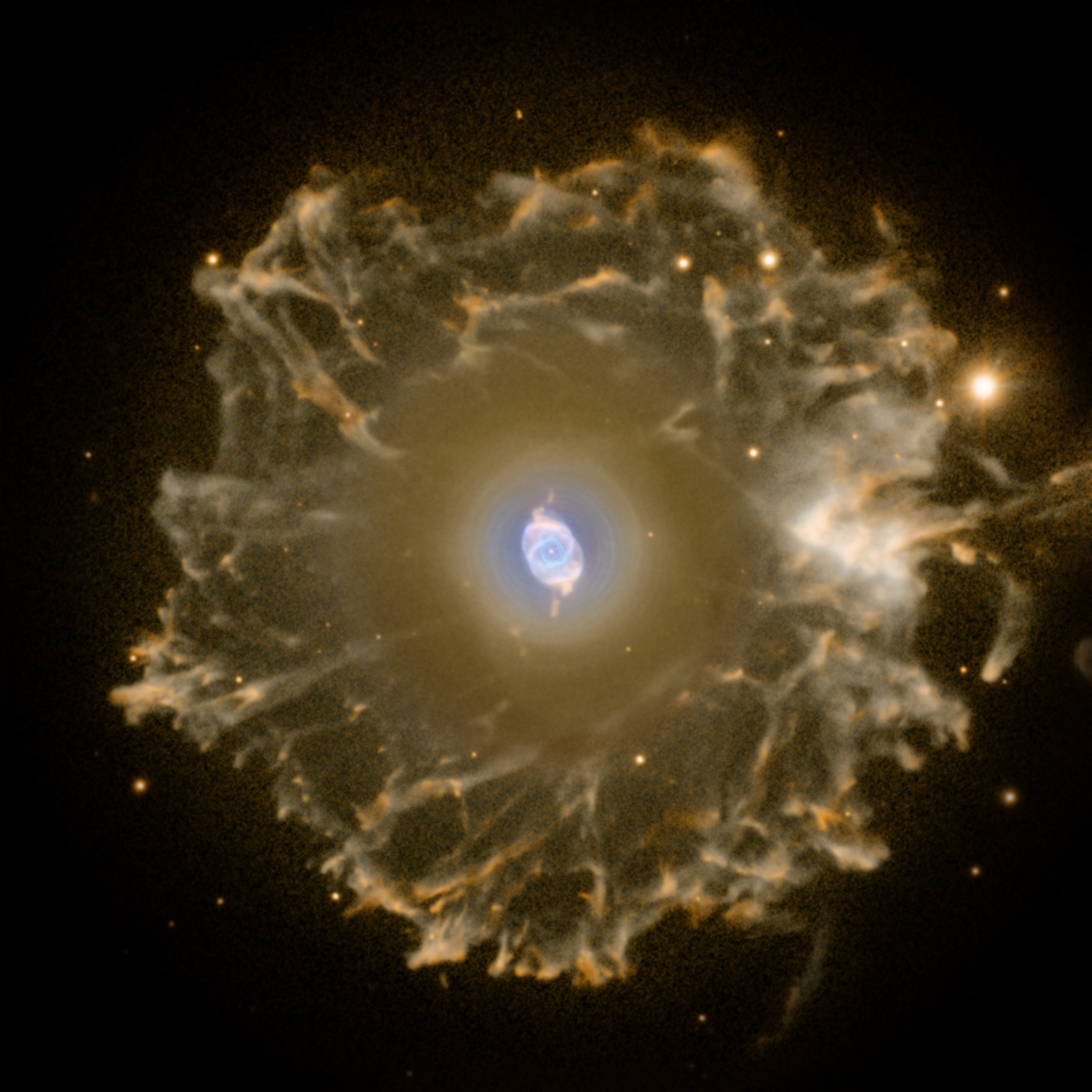 An enormous but extremely faint halo of gaseous material surrounds the Cat's Eye Nebula and is over three light-years across. Within the past years some planetary nebulae been found to have halos like this one, likely formed of material ejected during earlier active episodes in the star's evolution - most likely some 50,000 to 90,000 years ago. This image was taken by Romano Corradi with the Nordic Optical Telescope on La Palma in the Canary Islands. The image is constructed from two narrow-band exposures showing oxygen atoms (1800 seconds, in blue) and nitrogen atoms (1800 seconds, in red).